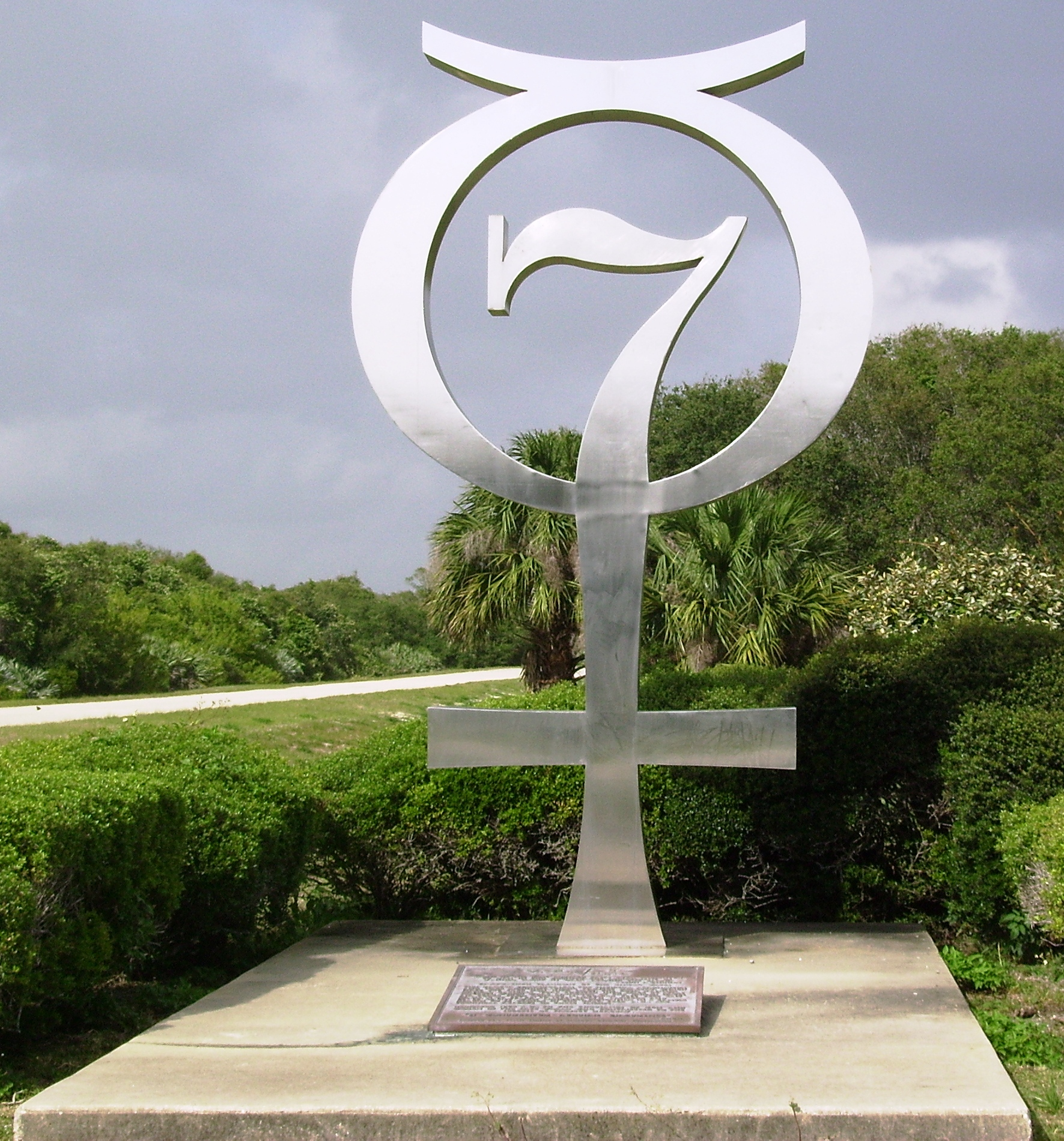 The Project Mercury memorial located at the entrance to the road leading to Launch Complex 14 at the Cape Canaveral Air Force Station, May 2007. The time capsule is located underneath the concrete slab.